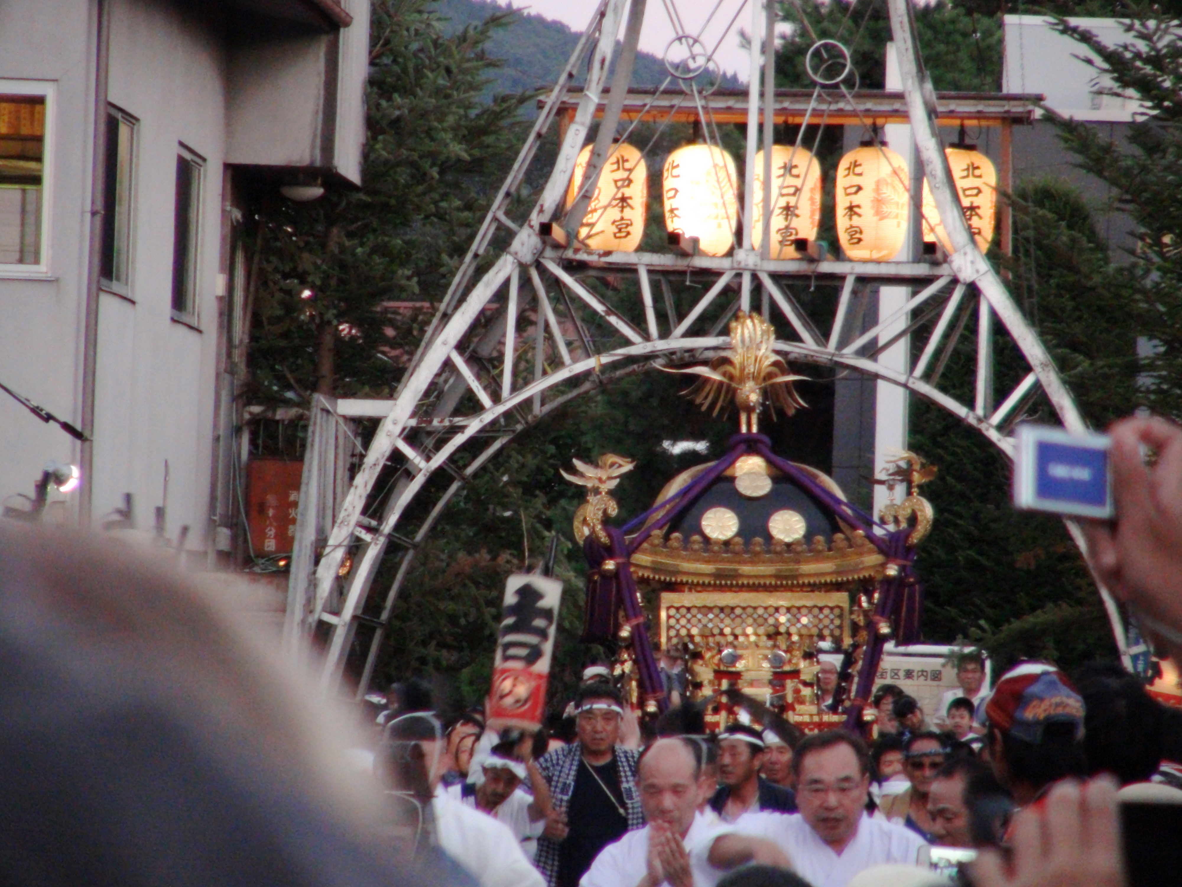 Phoenix Myojin Mikoshi that arrived Otabisho